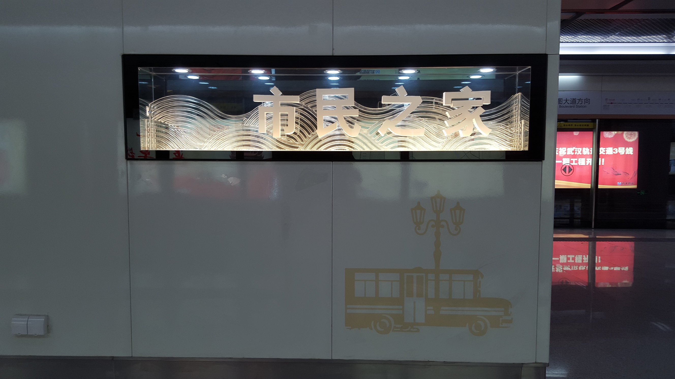 Name Box of Citizens Home Station